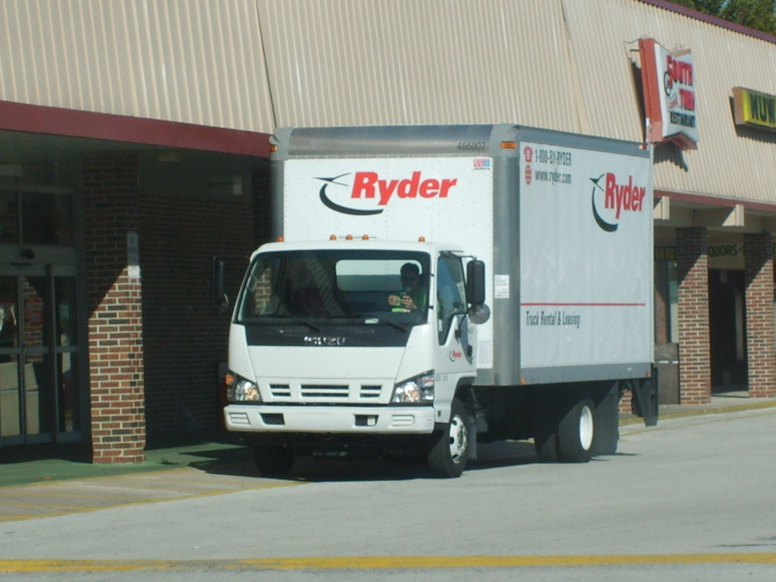 Photo of a parked Ryder Truck in Daytona Beach, Florida